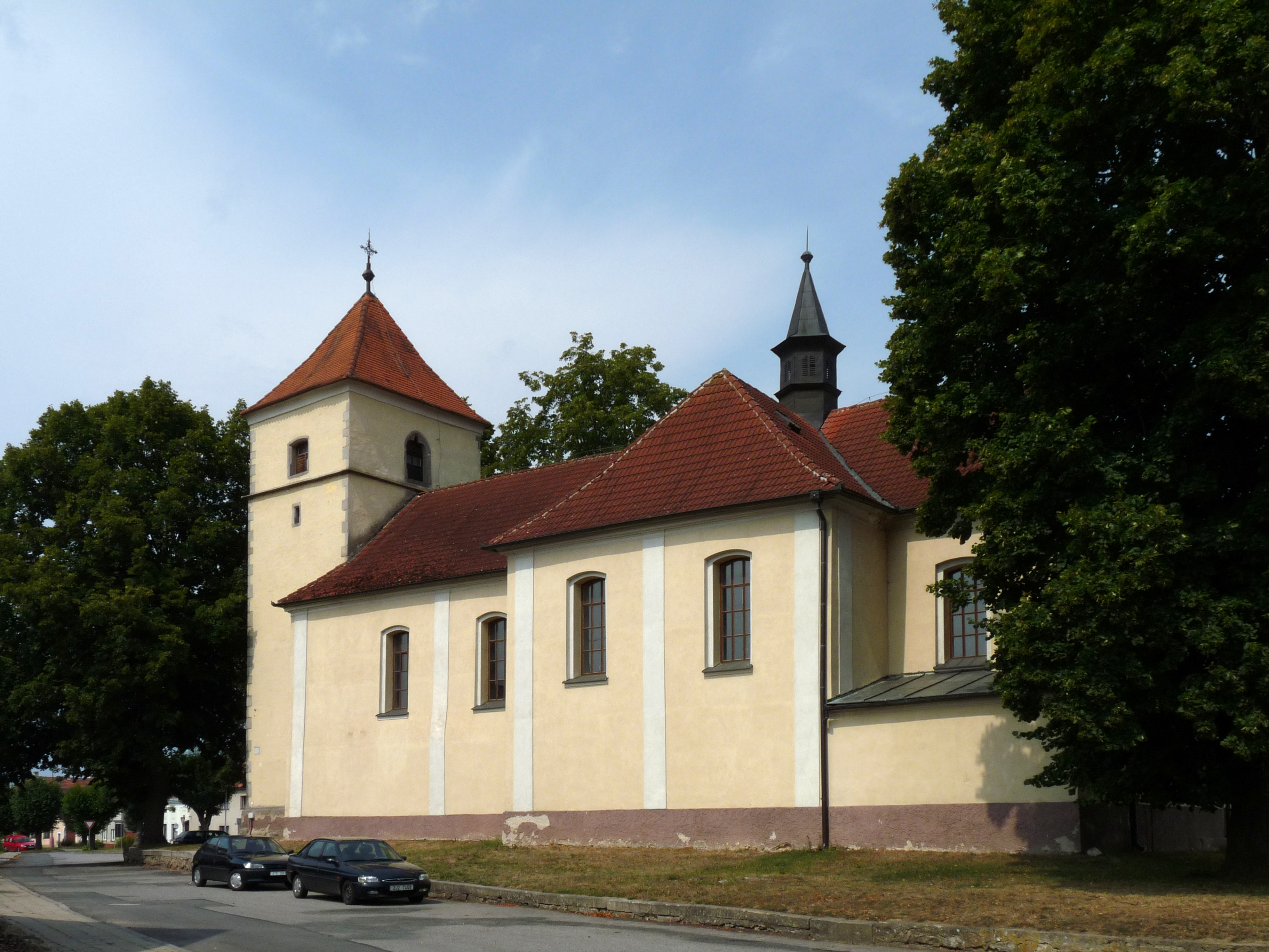 Church of Saint Mary Magdalene in the town of Dolní Cerekev, Jihlava District, Vysočina Region, Czech Republic.